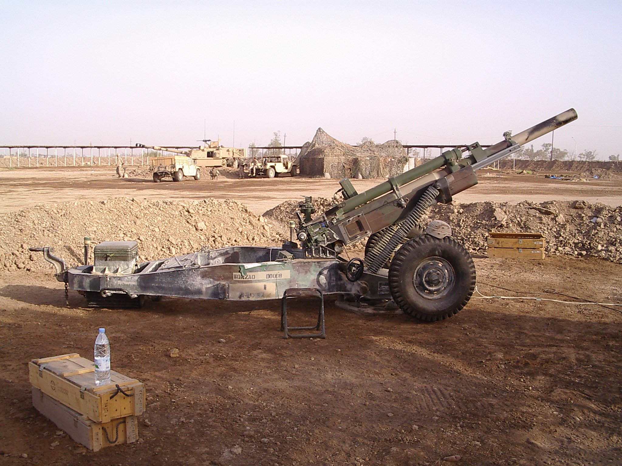 This is a photograph of an M102 Howitzer belonging to Battery A, 1st Battalion, 206th Field Artillery, 39th Brigade Combat Team, in position at Fire Base Paris, Camp Taji, Iraq 29 May 2004. In the background is a M109A6 Paladin 155mm Howitzer belonging to 2nd Battalion, 82nd Field Artillery Regiment, 1st Cavalry Division. These guns provided counter battery fire and close fire support for the 39th Brigade Combat Team and the 1st Cavalry Division during OIF II. A M109A6 Paladin Howitzer belonging to 2-82 FA, 1CD can be seen in the background.